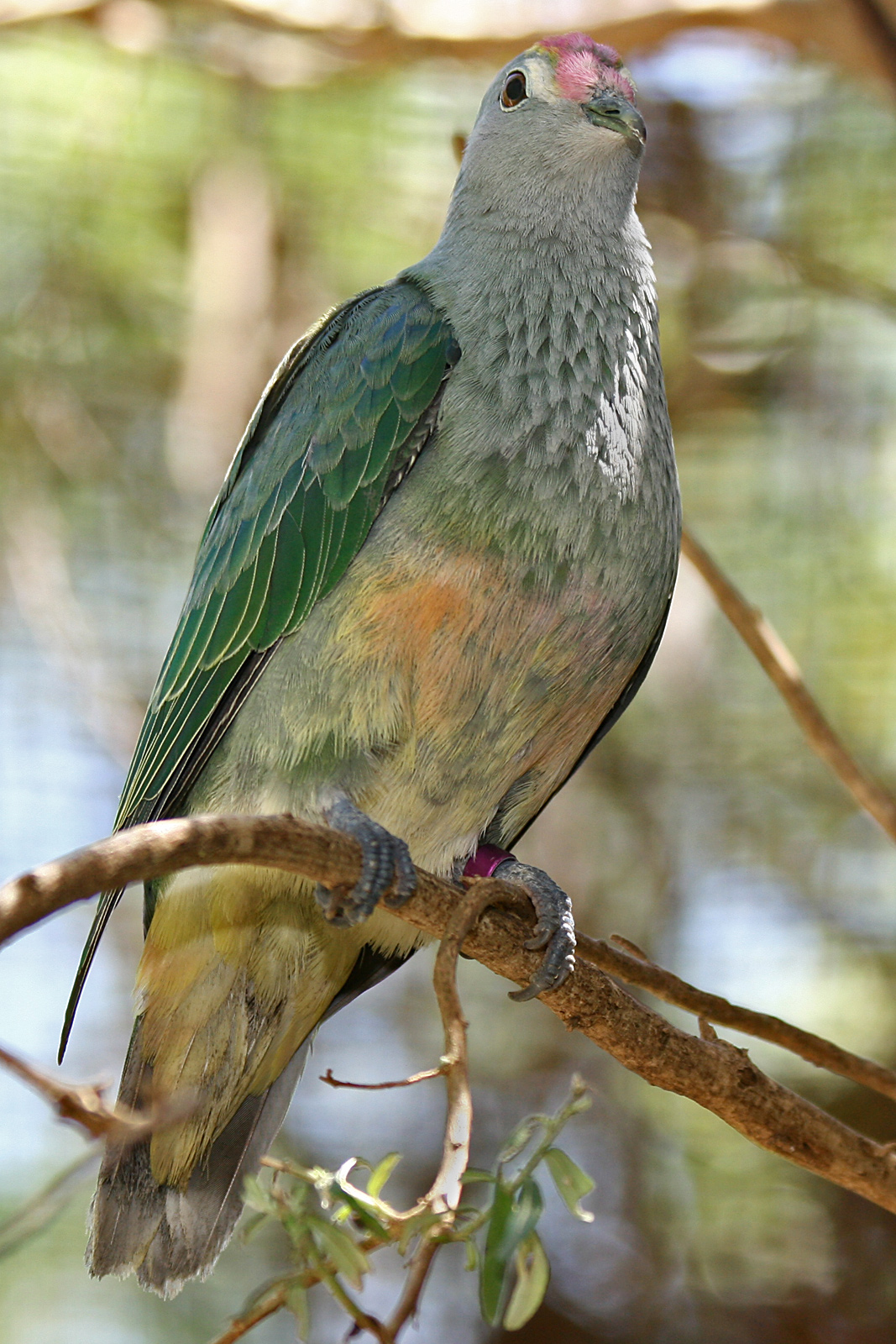 Rose-crowned Fruit-dove (Ptilinopus regina), Victoria, Australia. Specimen is approximately 20cm in length.